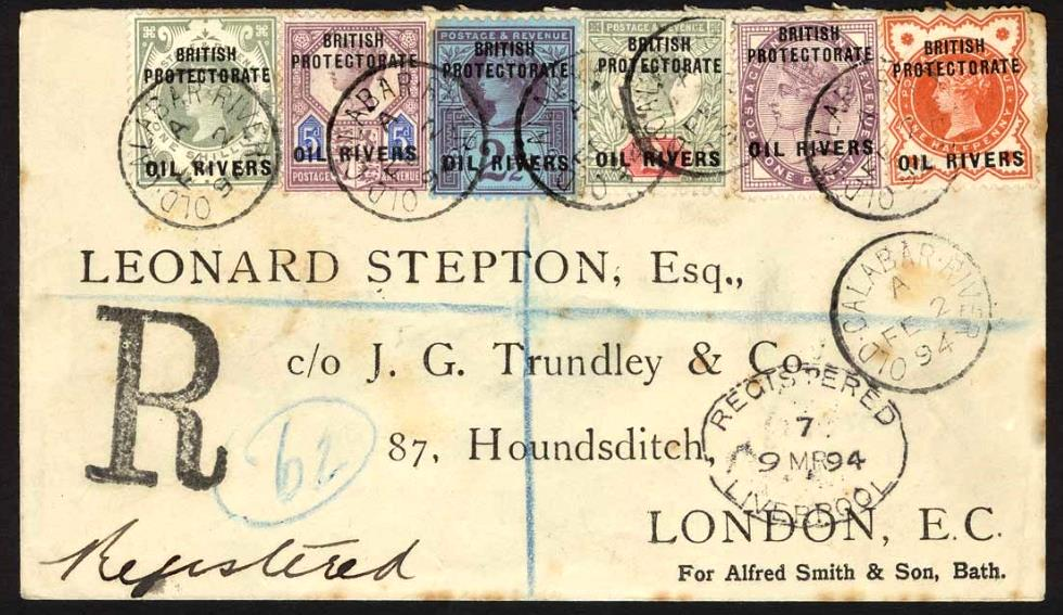 An Oil Rivers Protectorate cover from 1894 posted from Old Calabar.